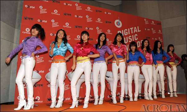 SNSD at Cyworld 31th Digital Music Awards